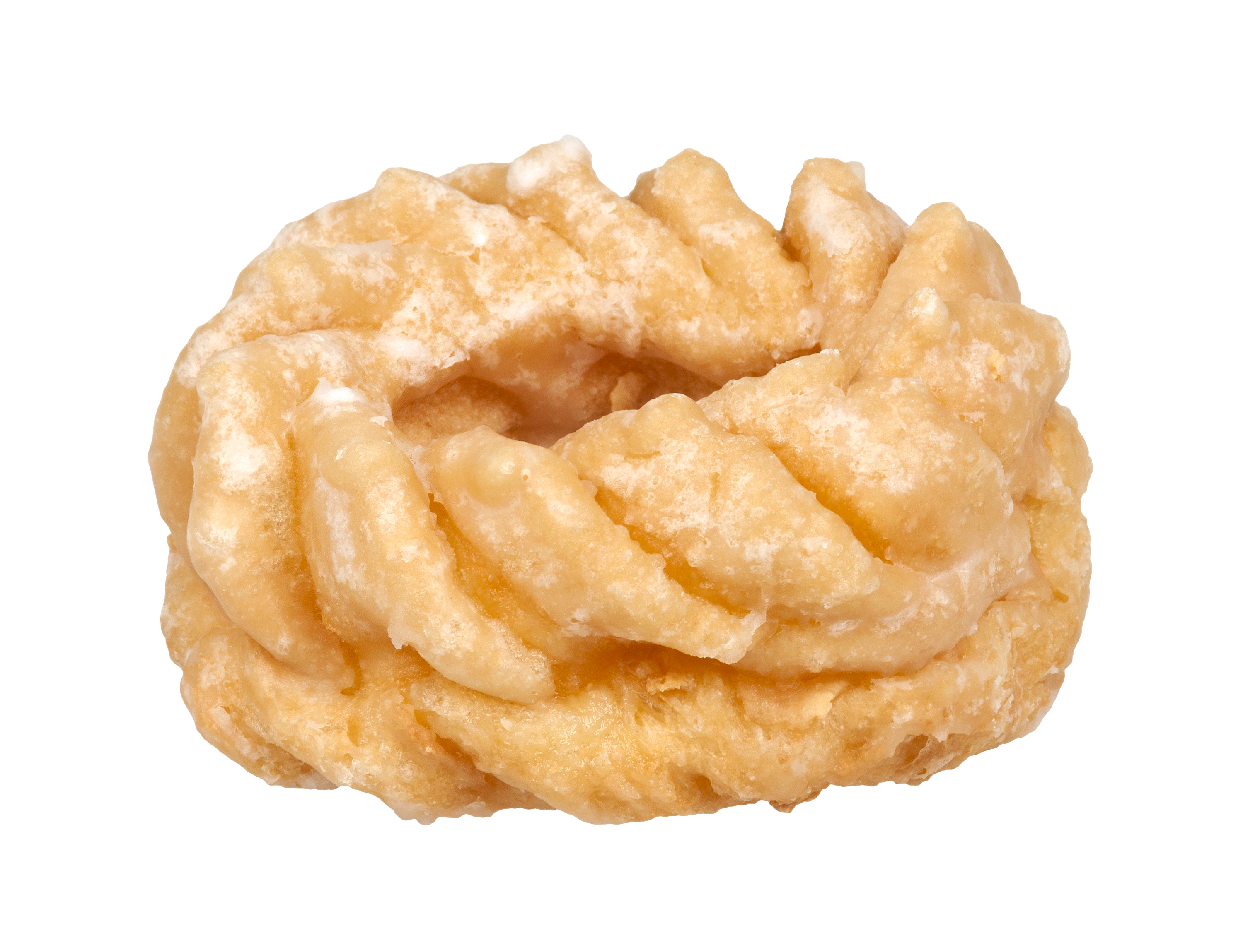 A french cruller donut, as bought from Dunkin' Donuts in America.